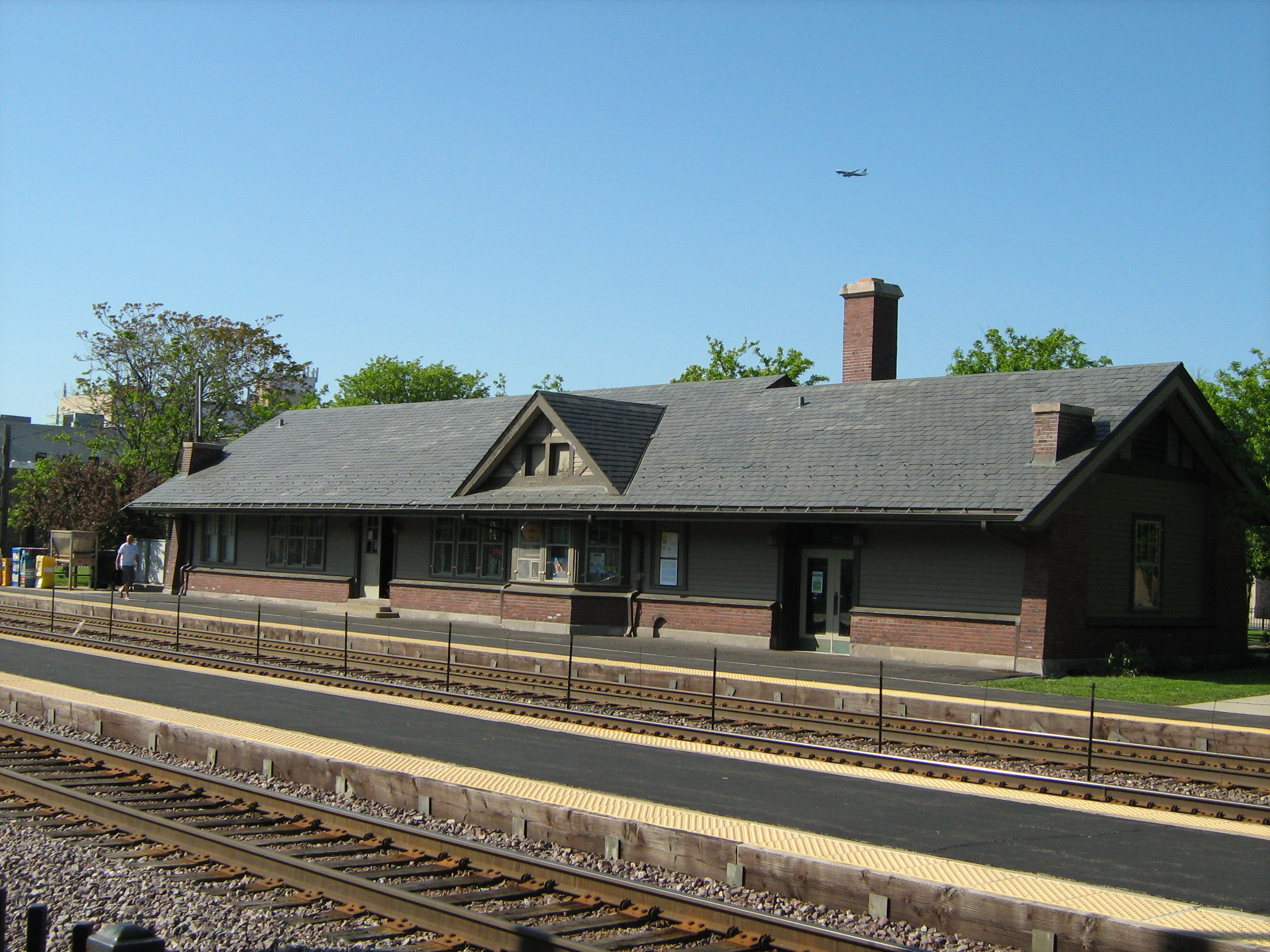 6088 N Northwest Hwy Chicago, IL 60631 Metra Union Pacific Northwest Line Zone C